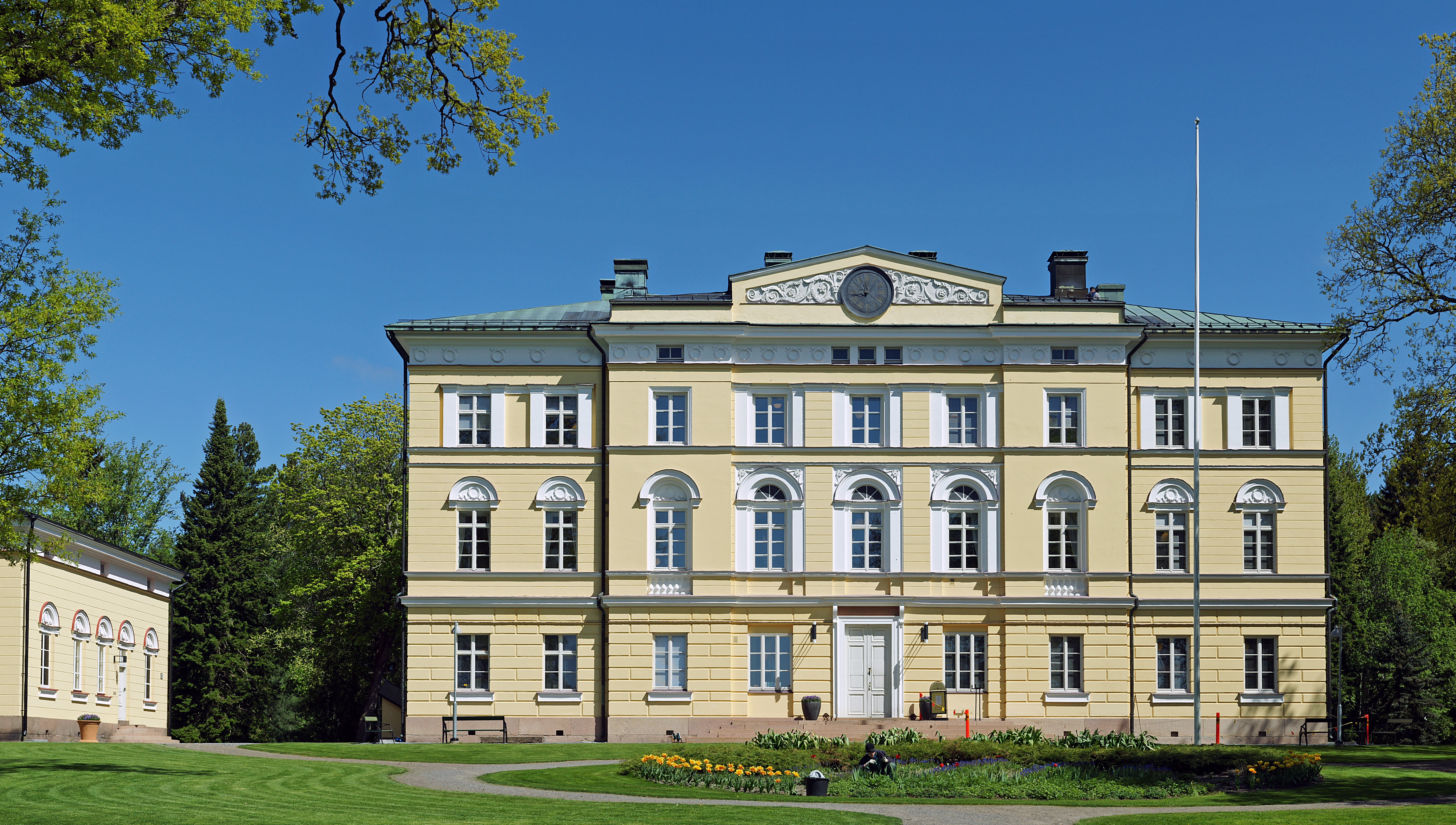 Vuojoki Manor at Eurajoki, Finland, photographed from the South. The manor, designed by Carl Ludvig Engel, is a cultural center and the headquarters of the Finnish nuclear waste repository corporation Posiva.